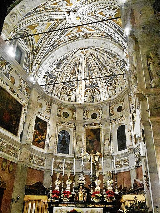 altar